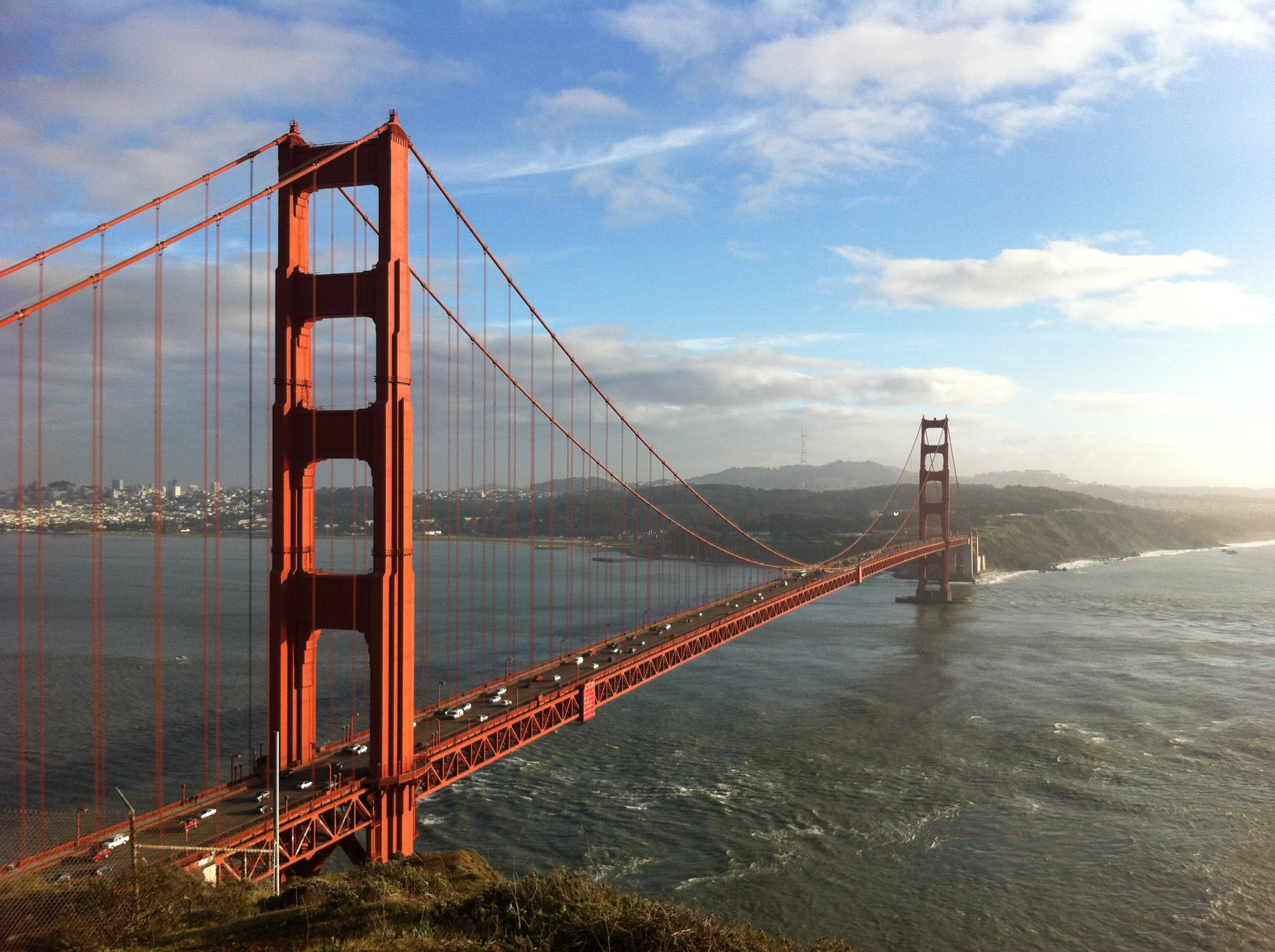 The Golden Gate Bridge on a very clear day in San Francisco.